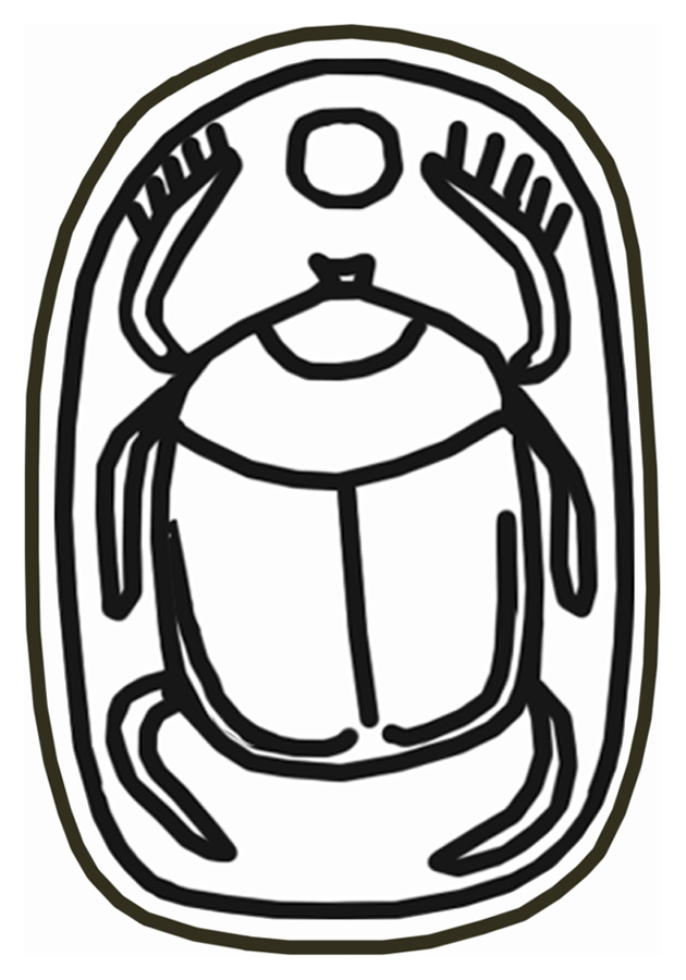 A scarab carved of light brown steatite with a thick gold rim around the bottom edge. A lip of gold, pressed around the scarab to hold it in place, is drawn out to form hoop-sockets. Carved into the back of the scarab is a beetle with outstretched legs under a disk.